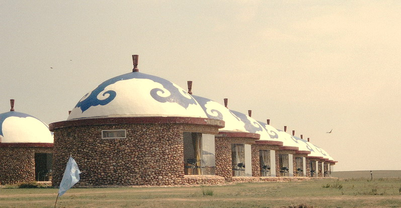 Picture taken by lukacs in Inner Mongolia, China.